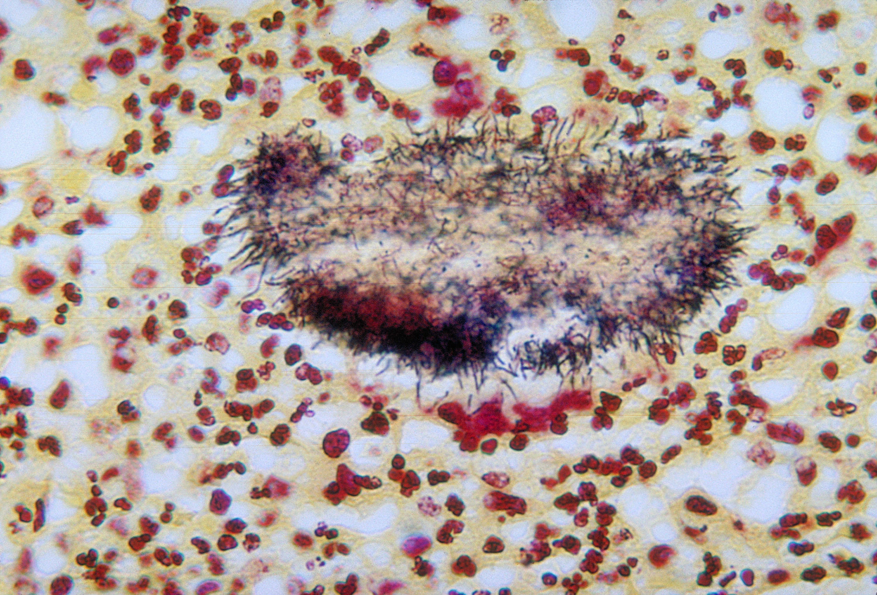 Histopathologic changes associated with actinomycetoma of the foot using a Brown and Brenn stain. Actinomycetoma is a chronic, granulomatous infection of the skin and subcutaneous tissue caused by the Gram-positive, fungus-like aerobic bacteria of the class Actinomyces. Obtained from the CDC Public Health Image Library. Image credit: CDC (PHIL #3152), 1965.